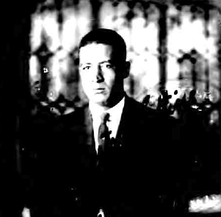 Passport photo of Hall of Fame baseball player Louis Santop (Loftin)